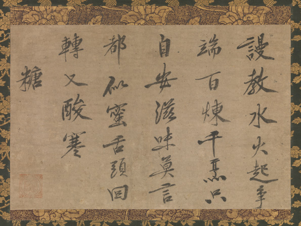 Kokan Shiren's Calligraphy